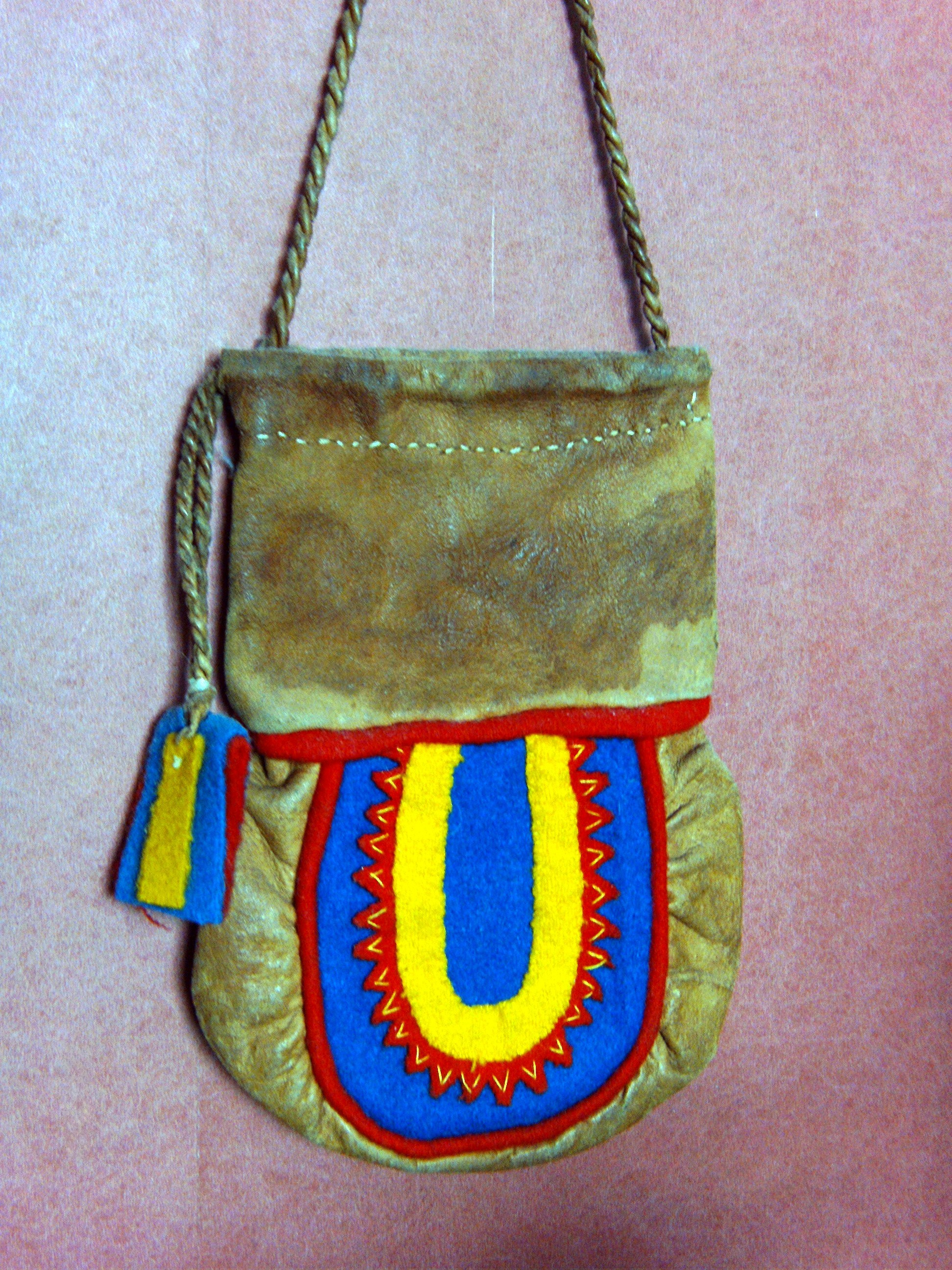 Duodji coffee bag